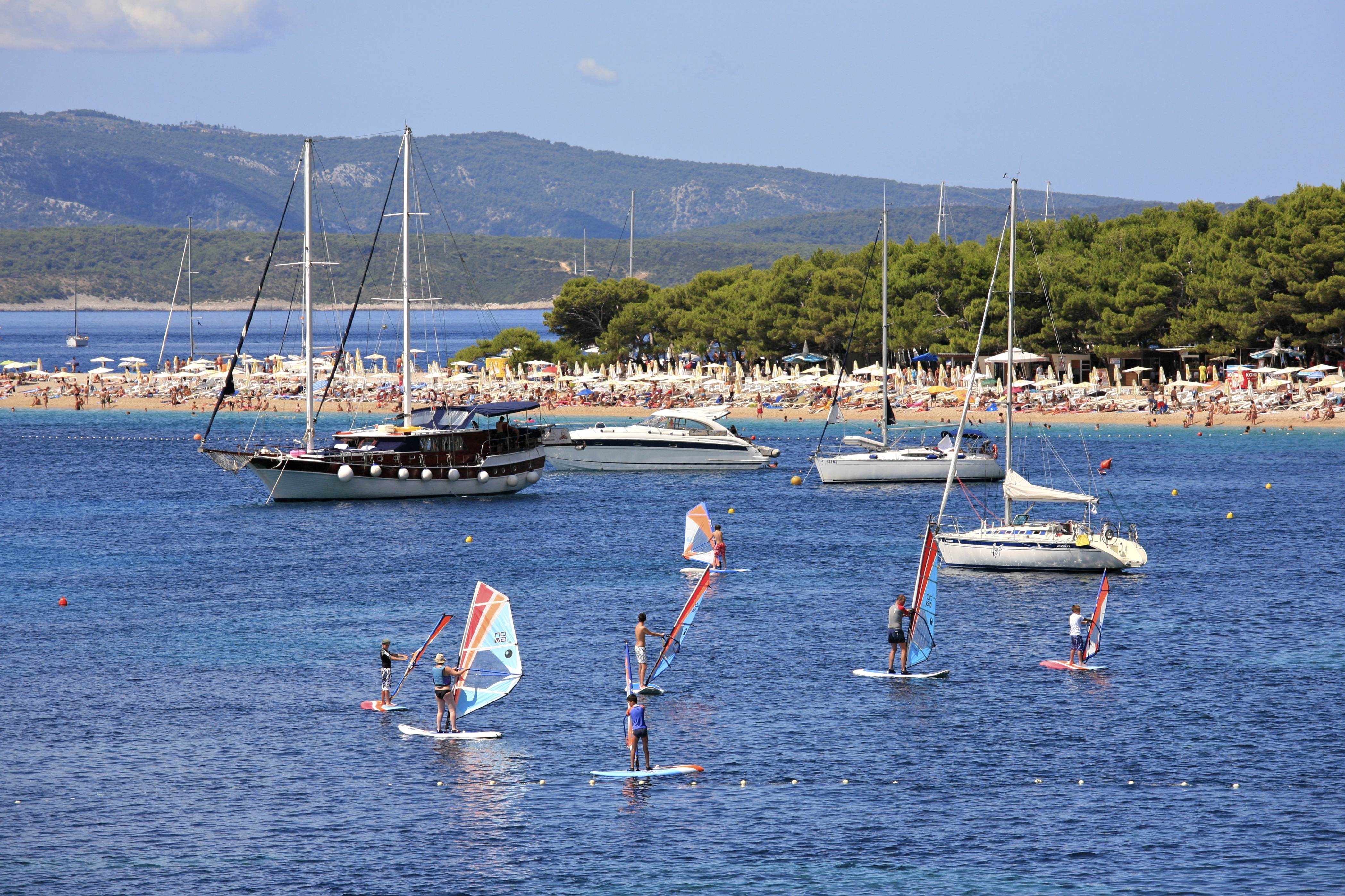 A Fine Day at Zlatni Rat, Brac Island